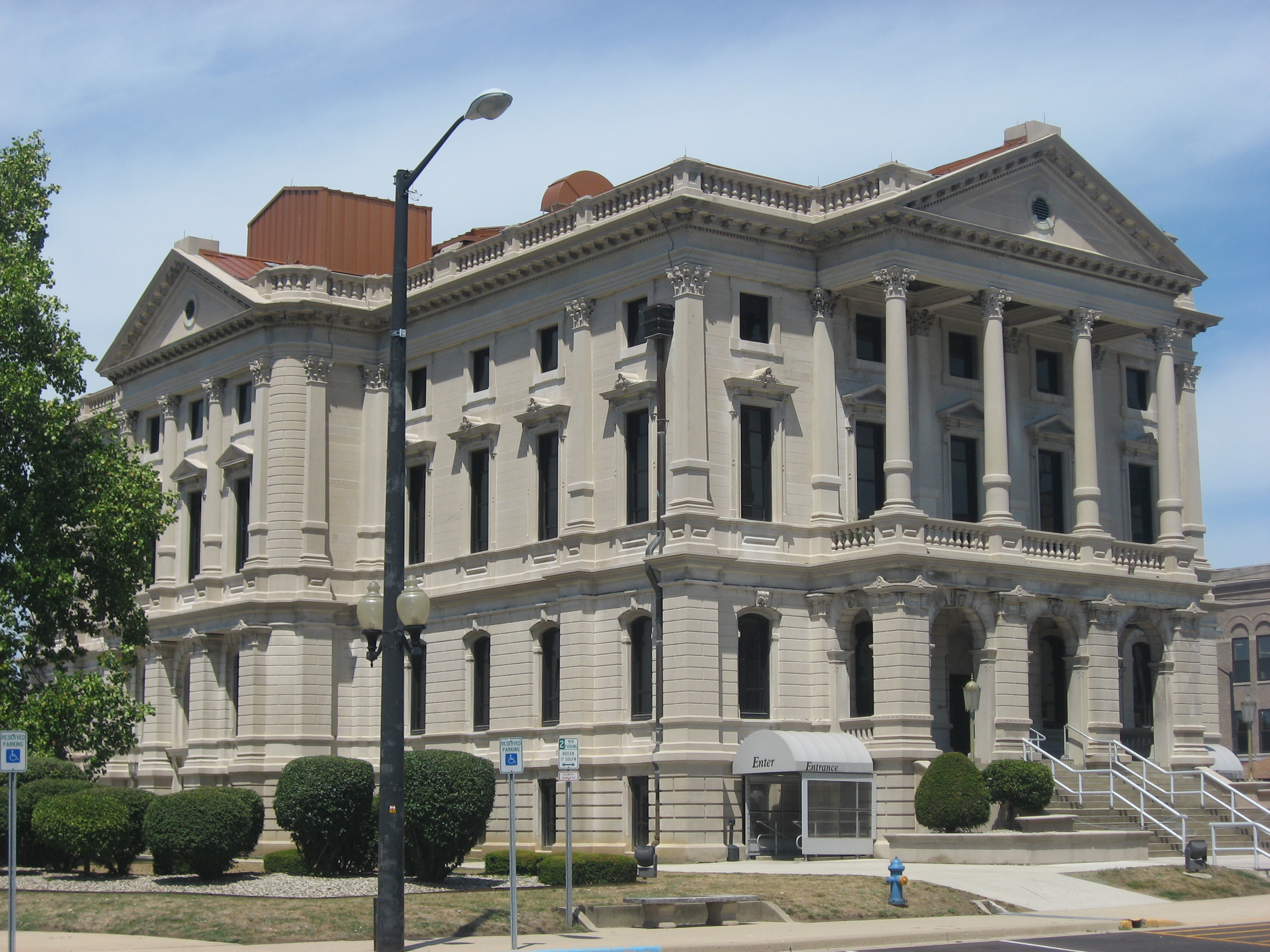 Southern front of the Grant County Courthouse, located on Courthouse Square (Fourth/Adams/Third/Washington Streets) in downtown Marion, Indiana, United States. Built in 1883, it is part of the Marion Downtown Commercial Historic District, a historic district that is listed on the National Register of Historic Places.